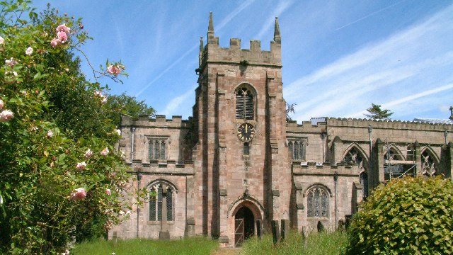 SS Mary and Barlok parish church, Norbury, Derbyshire, seen from the south